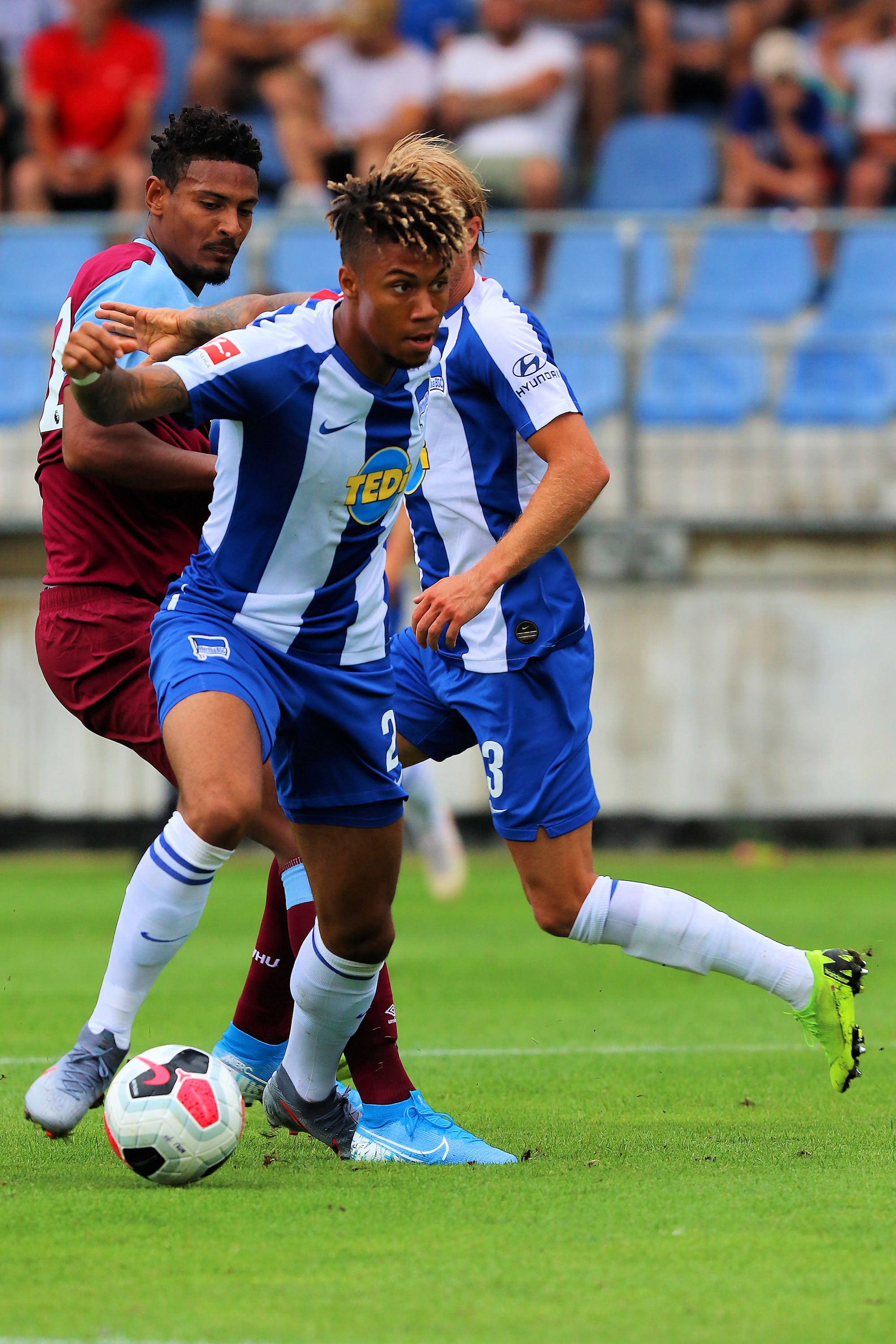 Friendly match Hertha BSC (blue-white shirts) vs. West Ham United (red-blue shirts) at 31-07-2019 3-5 (3-2) in the Sonnenseestadium in Ritzing. – The photo shows Sidney Friede (in front) and Sébastien Haller (behind).